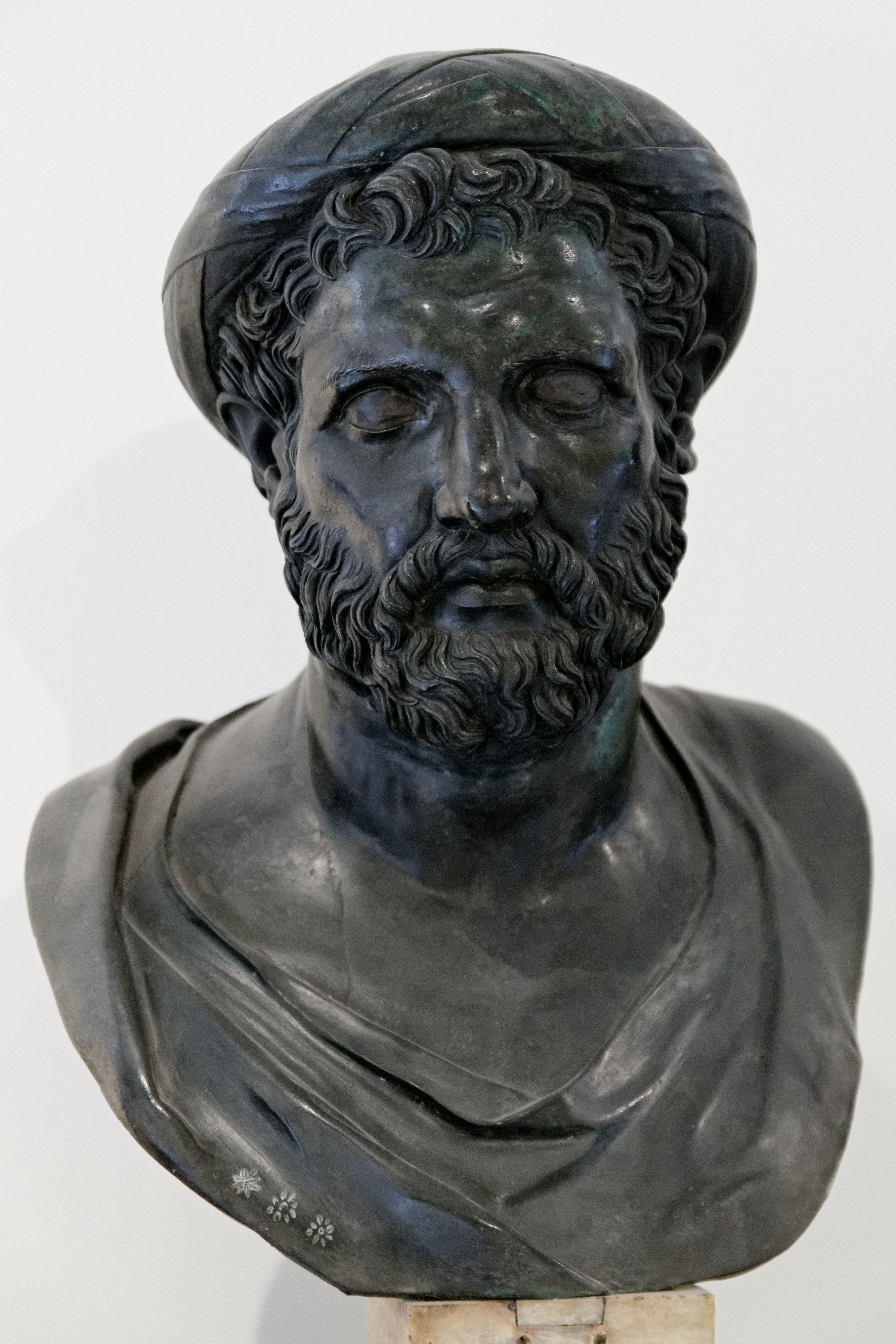 Bearded man with turban; the draped bust is a modern restoration bearing the red three-flower Bourbon foundry mark. The identification with Archytas was derived from the comparison of this bust with the head on a coin, afterwards discovered to be false. The Naples National Archaeological Museum currently identifies this bust as Pythagoras, and says [1] : "The bust, interpreted as Pythagoras, by virtue of the testimony of Aelian (Varia Historia, xii, 32), that the philosopher was usually oriental dress and use a taenia wrapped around the head, similar to the typical headgear still worn in the North Africa and the near and Middle East. ... In addition, strong similarities are found with some replicas in marble representing the philosopher, ... The bust, with rounded shapes and contours, can be considered stylistically a Roman copy from the end of the first century BC, of a Greek original, according to some of the early Hellenistic period, according to others the late Hellenistic period."